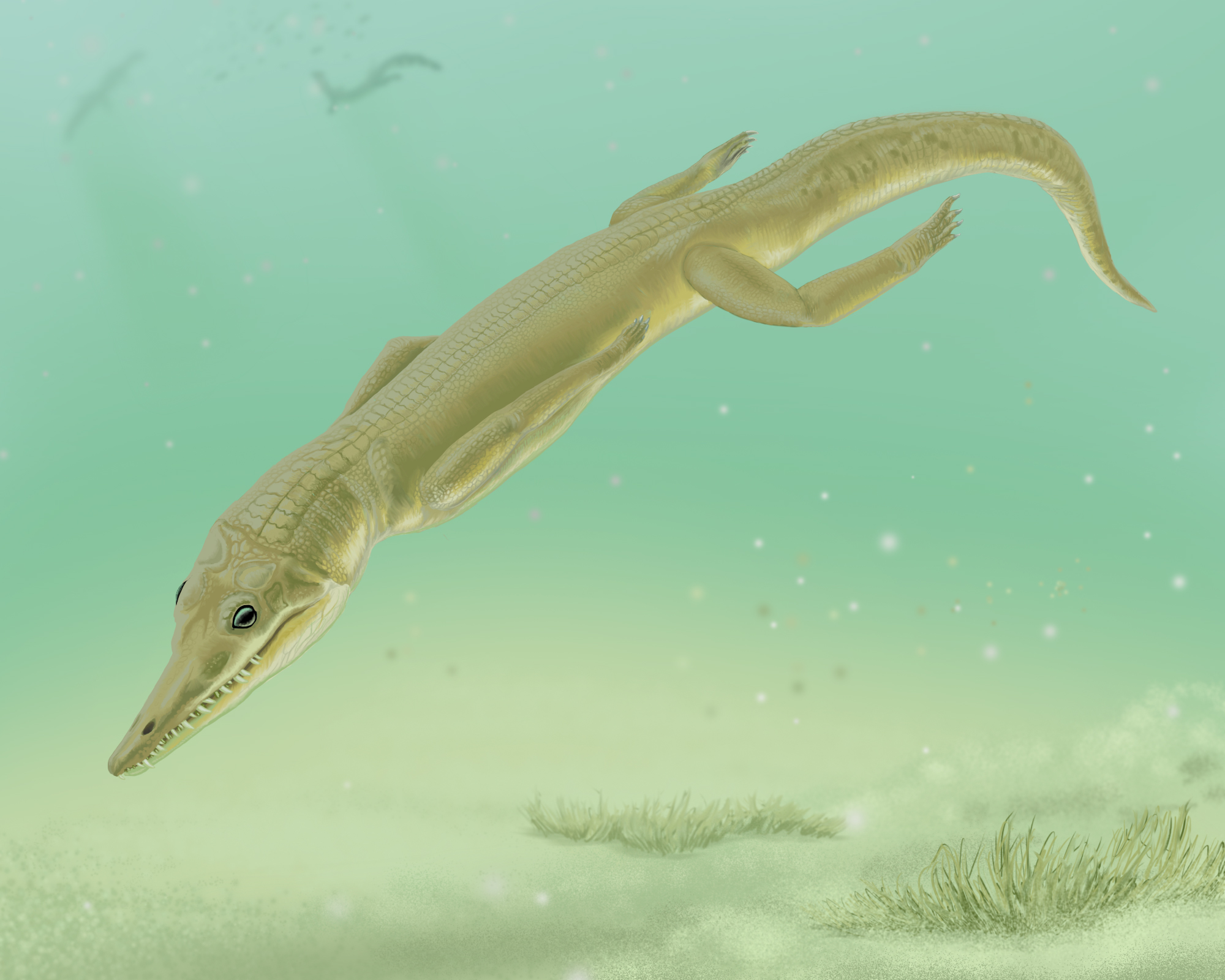 Life restoration of Diandongosuchus fuyuanensis. Based on figures in "A new archosaur (Diapsida, Archosauriformes) from the marine Triassic of China" by Chun Li, Xiao-Chun Wu, Li-Jun Zhao, Tamaki Sato, and Li-Ting Wang (Journal of Vertebrate Paleontology 32(5): 1064-1081).